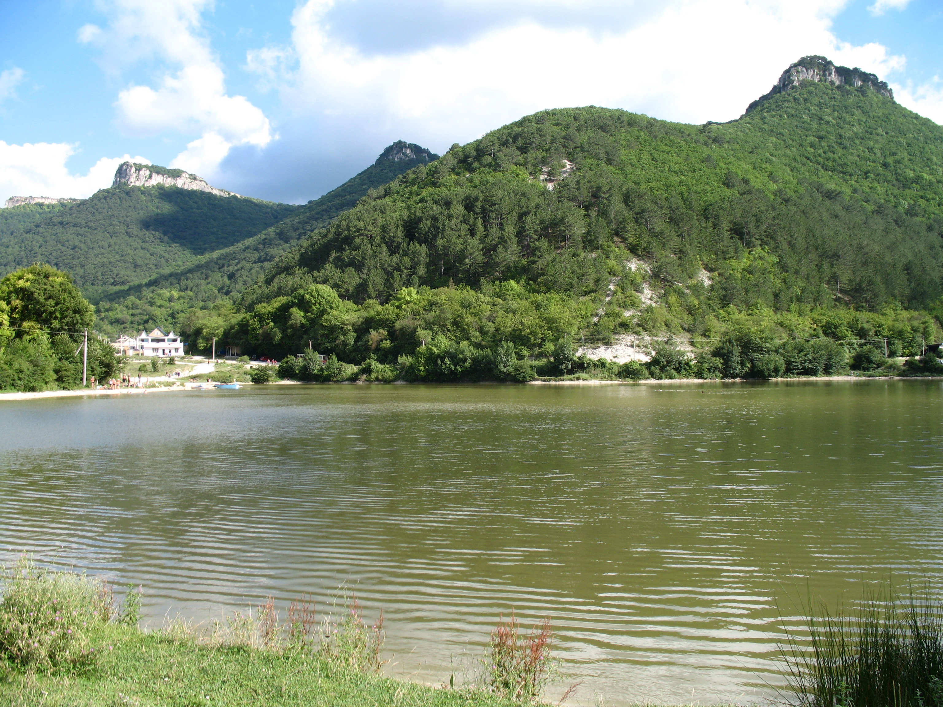 Mangup Plato - Sight from Bottom